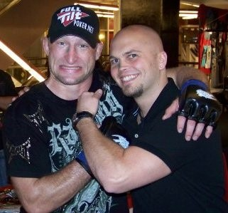 Brock Larson - Minneapolis, April, 2010